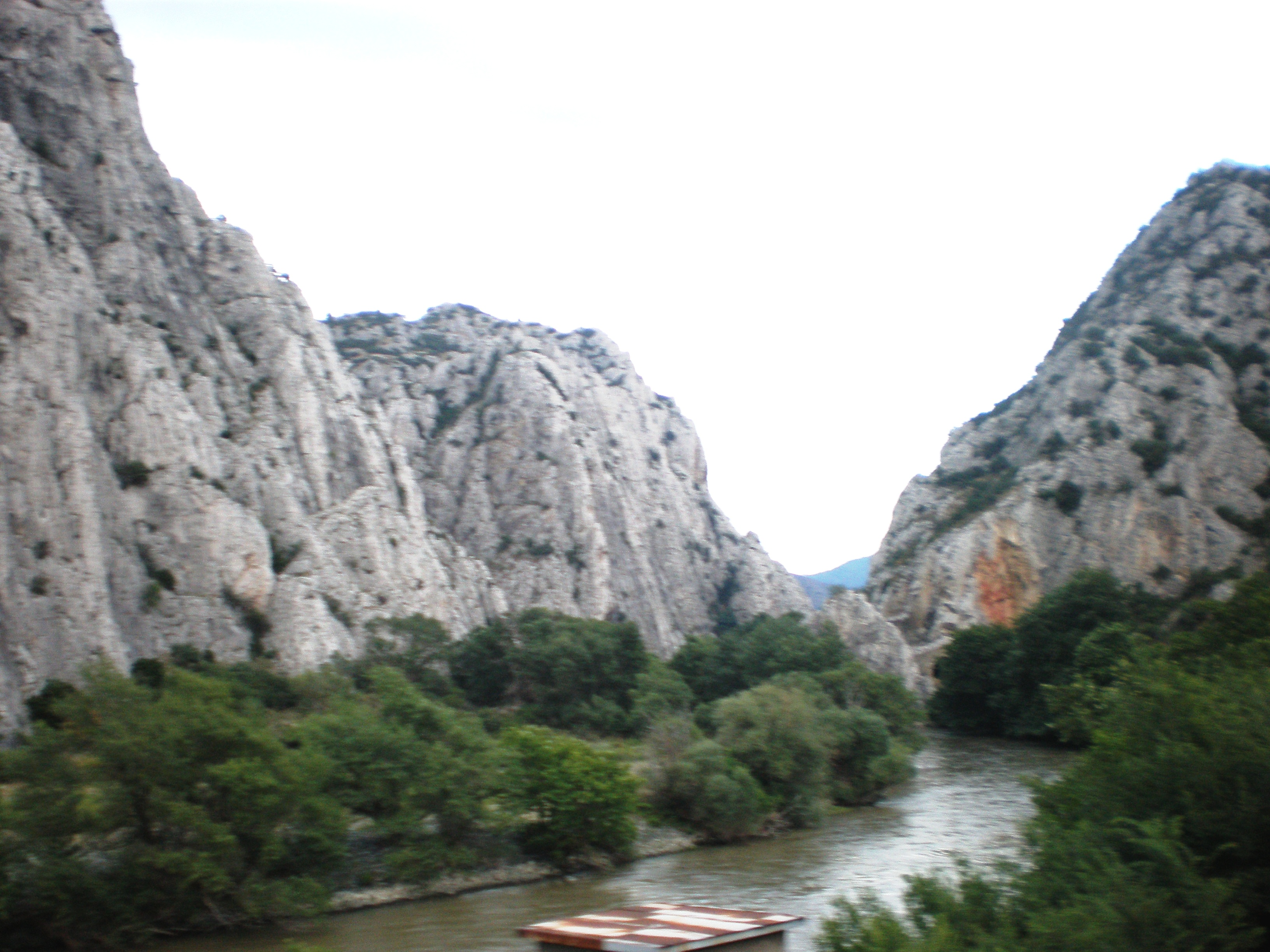 Vardar river in Demir Kapija gorge